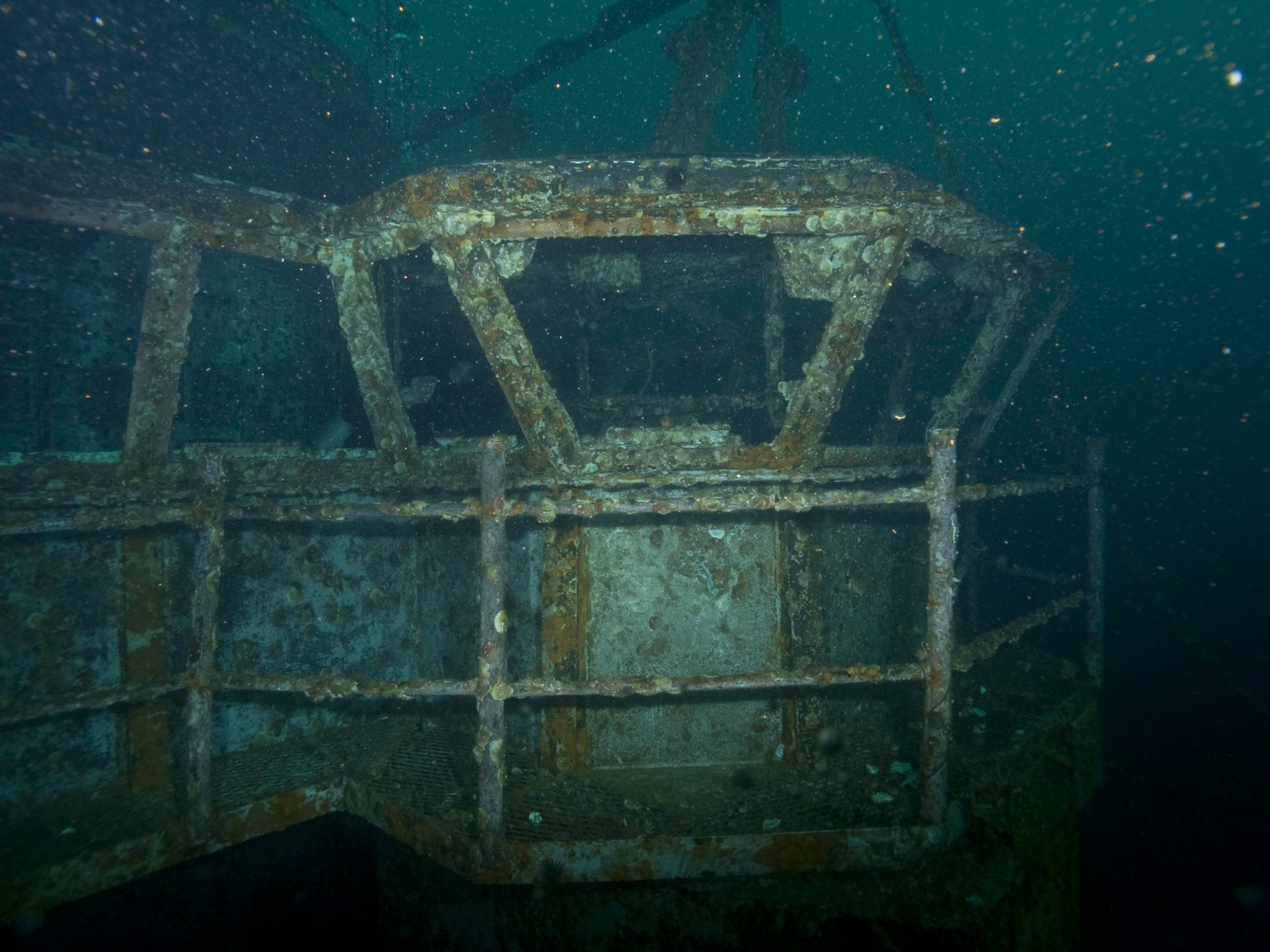 Underwater view of the ex-Oriskany taken 2 years after sinking. Most surfaces have growth of shells and sea urchins.